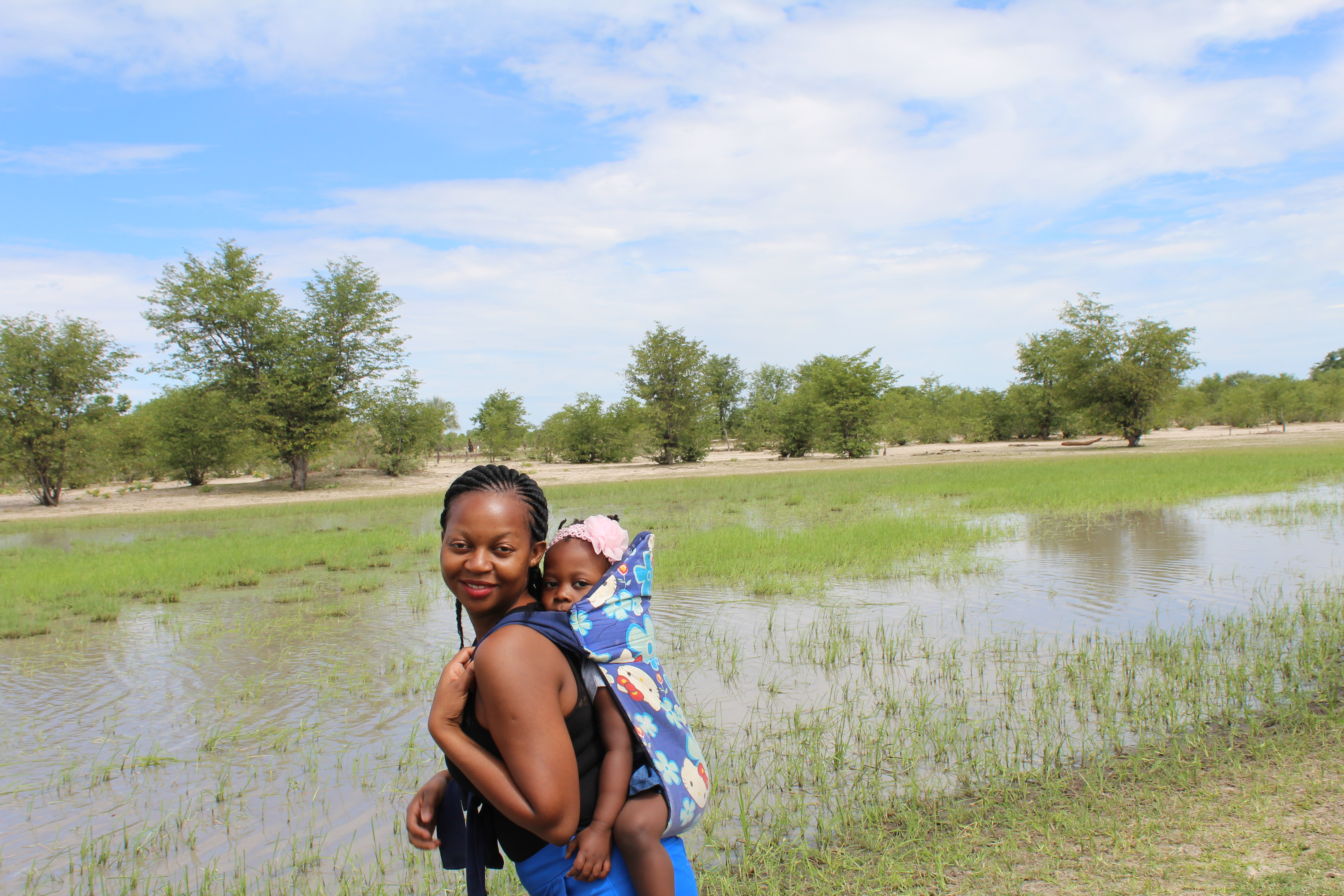 This picture is of my sister carrying her daughter in a African (Wambo of the Namibian tribes) baby carriers. The picture was taken in our village in the Northern part of Namibia called Oshigambo. This is an image of Cultural Fashion or Adornment from Namibia